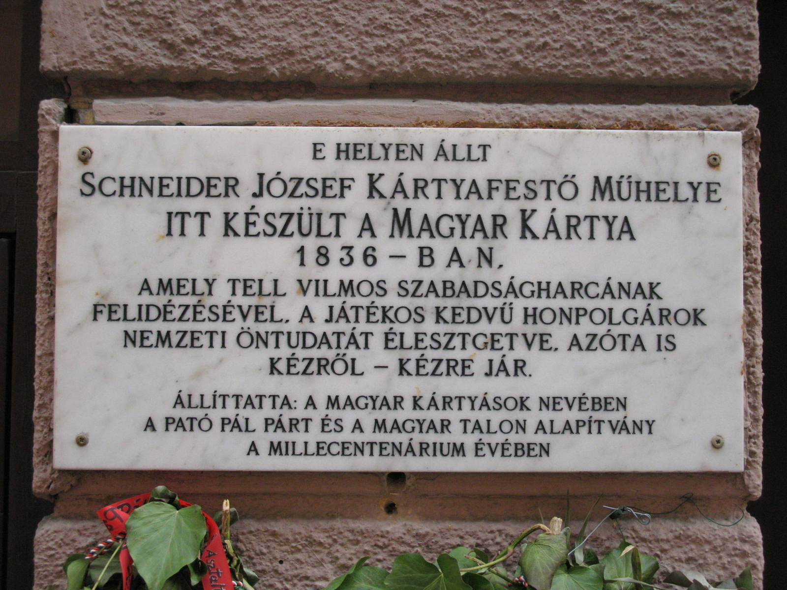 Plague on the wall of the Wichmann kocsma in Budapest (Kazinczy stree 55) saying that the Hungarian cards were first produced there. The house was the home of the former Wichmann Pub